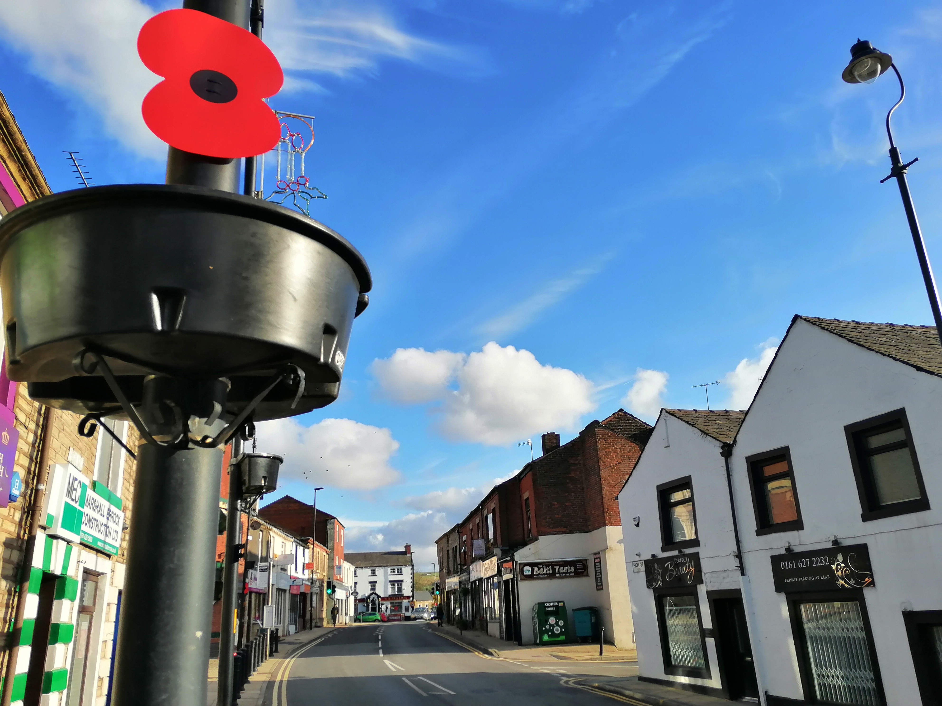 Poppy on a lamp post on Lees High Street